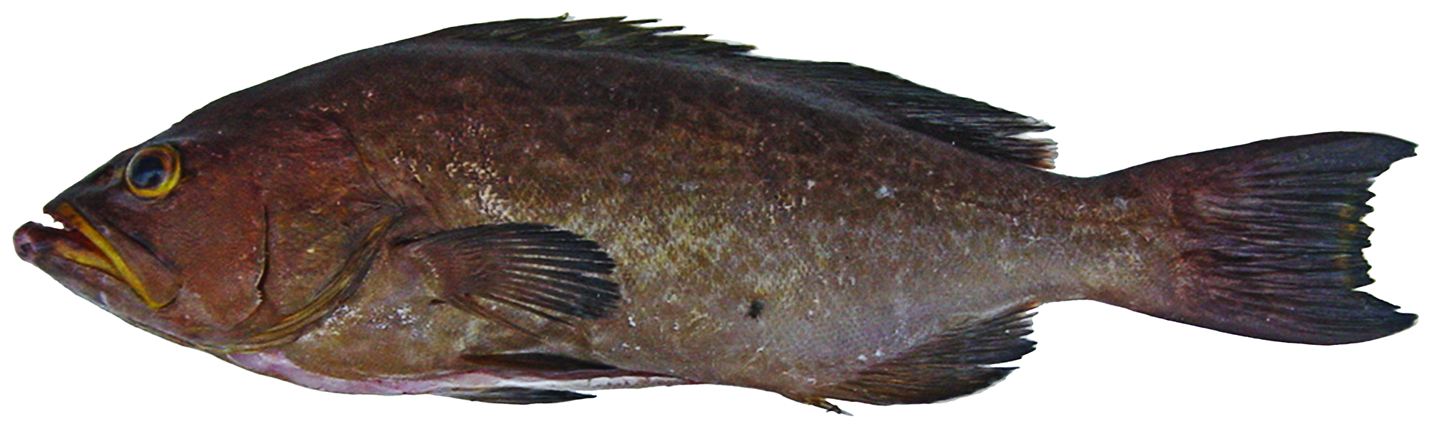 Mycteroperca interstitialis (Poey, 1860)—yellowmouth grouper, 328 mm SL. Photo by W Toller.